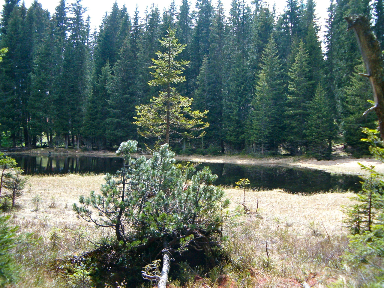 protected lake and moorland Schwarzsee, Arosa/Switzerland